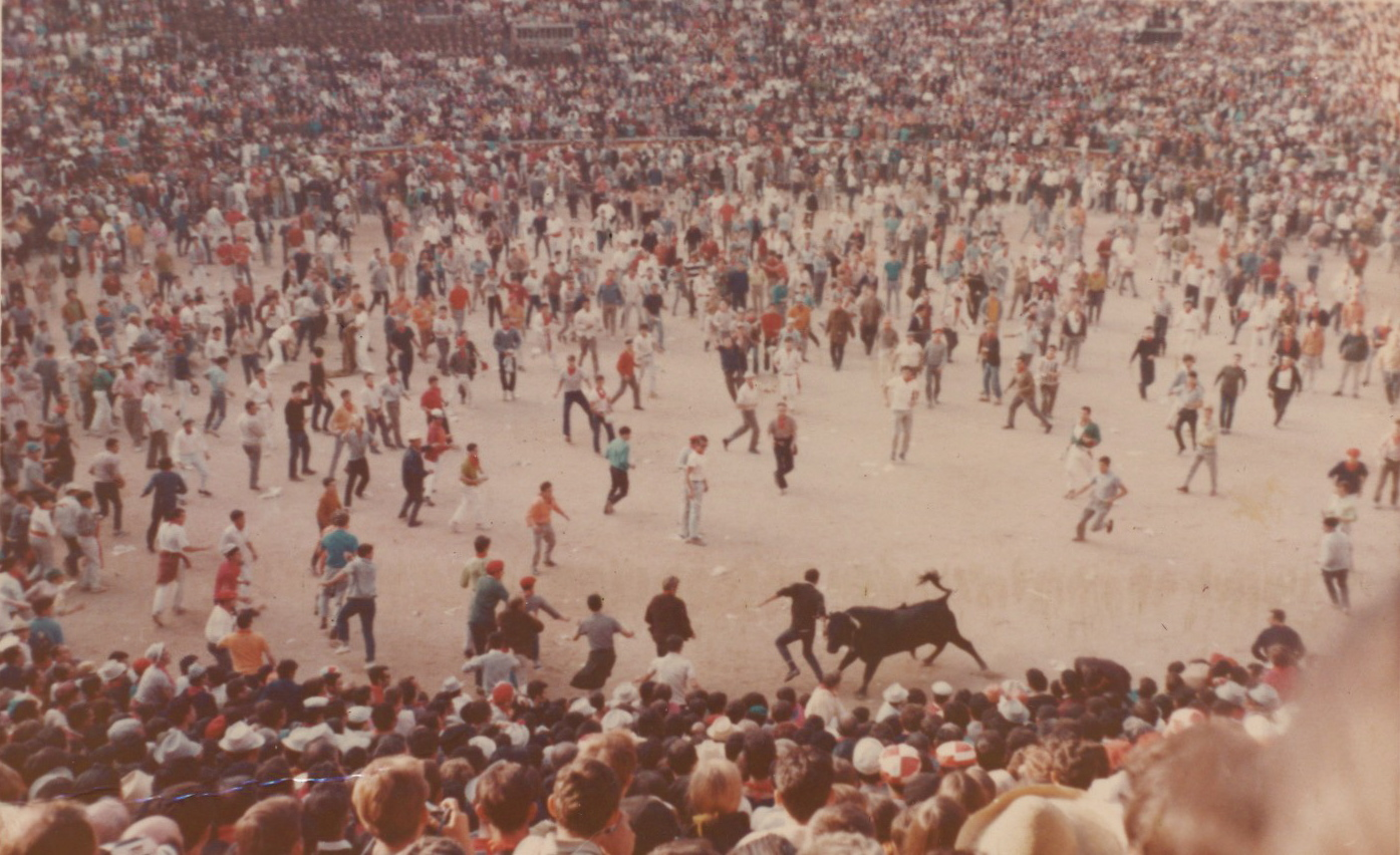 Pamplona, Spain, July, 1968. Running with the bull.